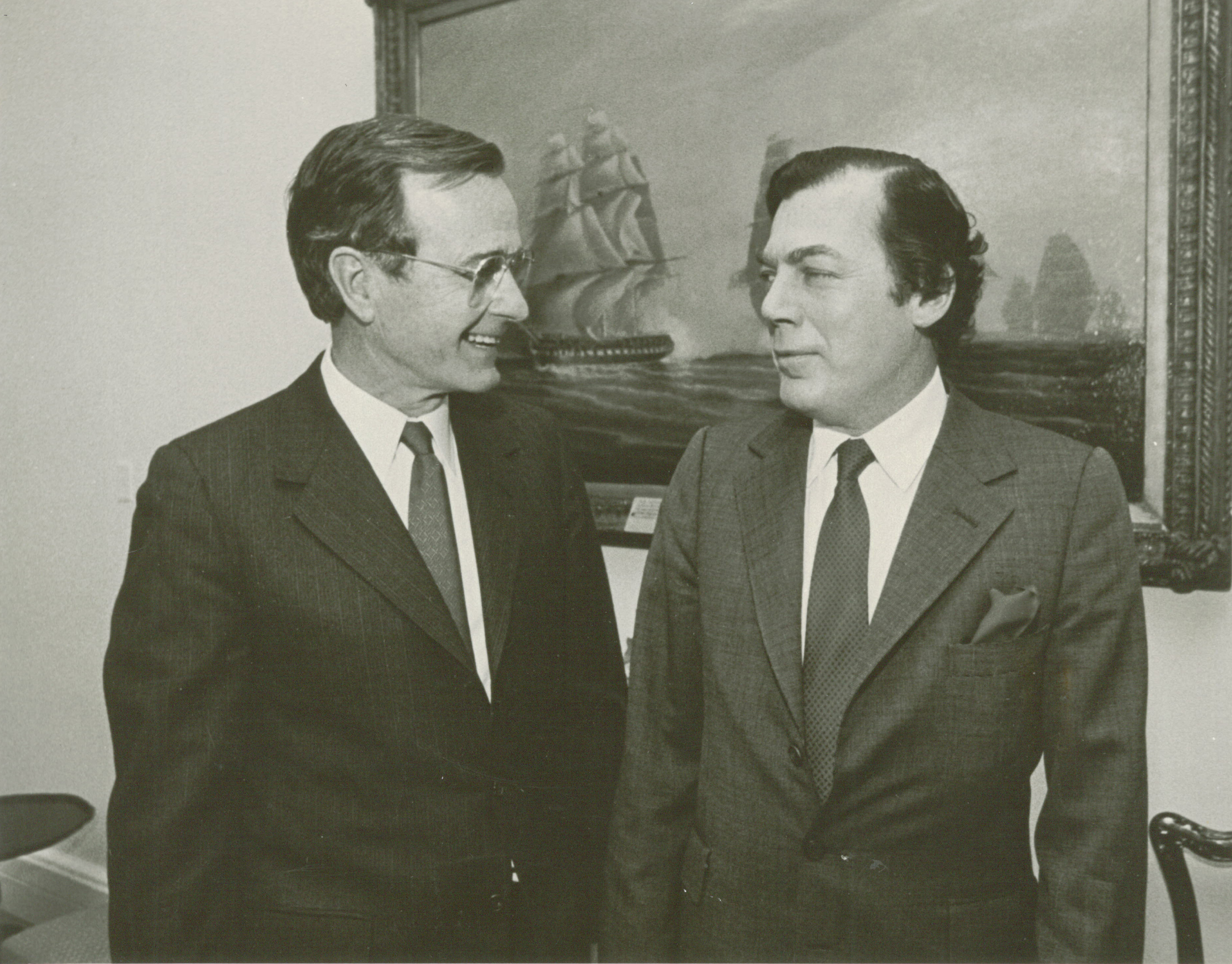 Edgar M Bronfman and George H.W. Bush